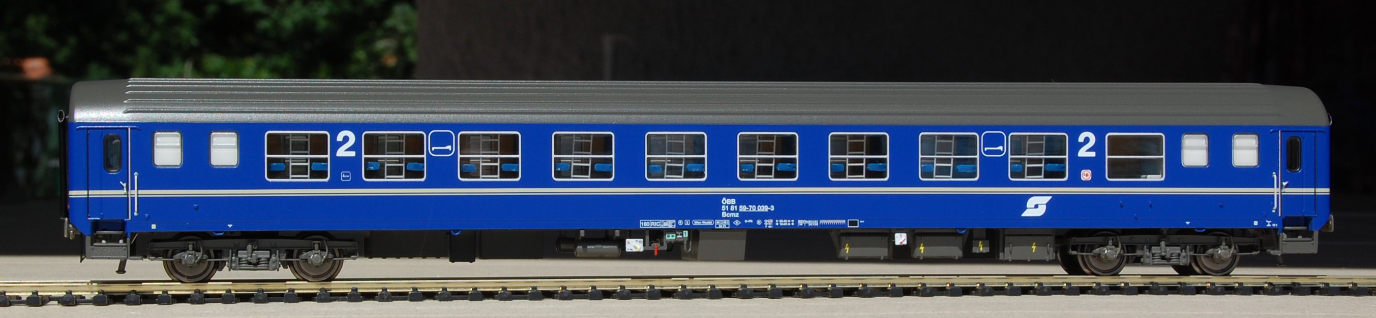 Couchette car ÖBB Bcmz 51 81 59-70 with 9 commercial compartments + 1 for service and 4 toilets ; compartments side. LS Models scale model, 2013.